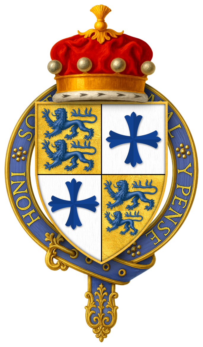 Coat of arms of Sir John Sutton, 1st Baron Dudley, KG:Quarterly – 1st & 4th: Or two lions passant azure, armed and langued gules (Dudley, alias Somerie); 2nd & 3rd: Argent a cross fleury azure (...).